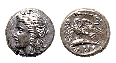 Pontic Olbia (Olbia, Ukraine) AR Stater Head of Demeter left, wearing grain ear wreath Sea eagle standing left, wings spread and head right, on dolphin left. Monogram above. OΛBIO below